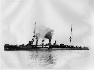 HMS Liverpool (Bristol-class) cruiser. Courtesy of Navy-photos The HMS Liverpool was sold for scrap in 1921, so this photo is surely in the public domain.